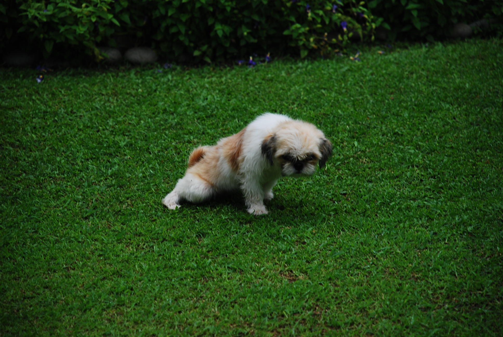 gumbywumby :)